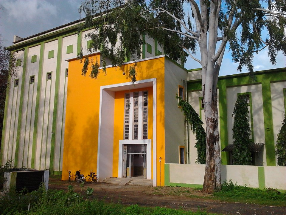 JEC Jabalpur's Electrical Engineering laboratory